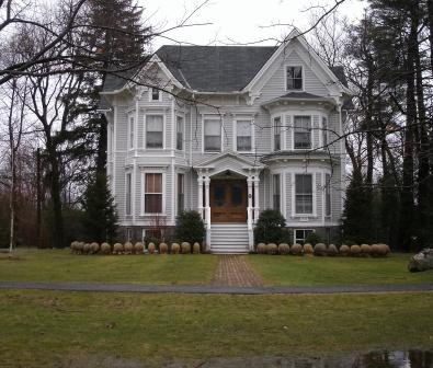 House at 77 South Street, in Litchfield Historic District, Litchfield, Connecticut